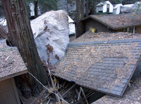 A photo showing damage to cabins in Curry Village at Yosemite National Park after a rockfall on October 8, 2008. According to a report from the US Geological Survey and the US National Park Service (see "Source"), the light-colored boulder which caused the depicted damage is newer than the prehistoric rockfall boulders which are darker colored and which can be seen further back.